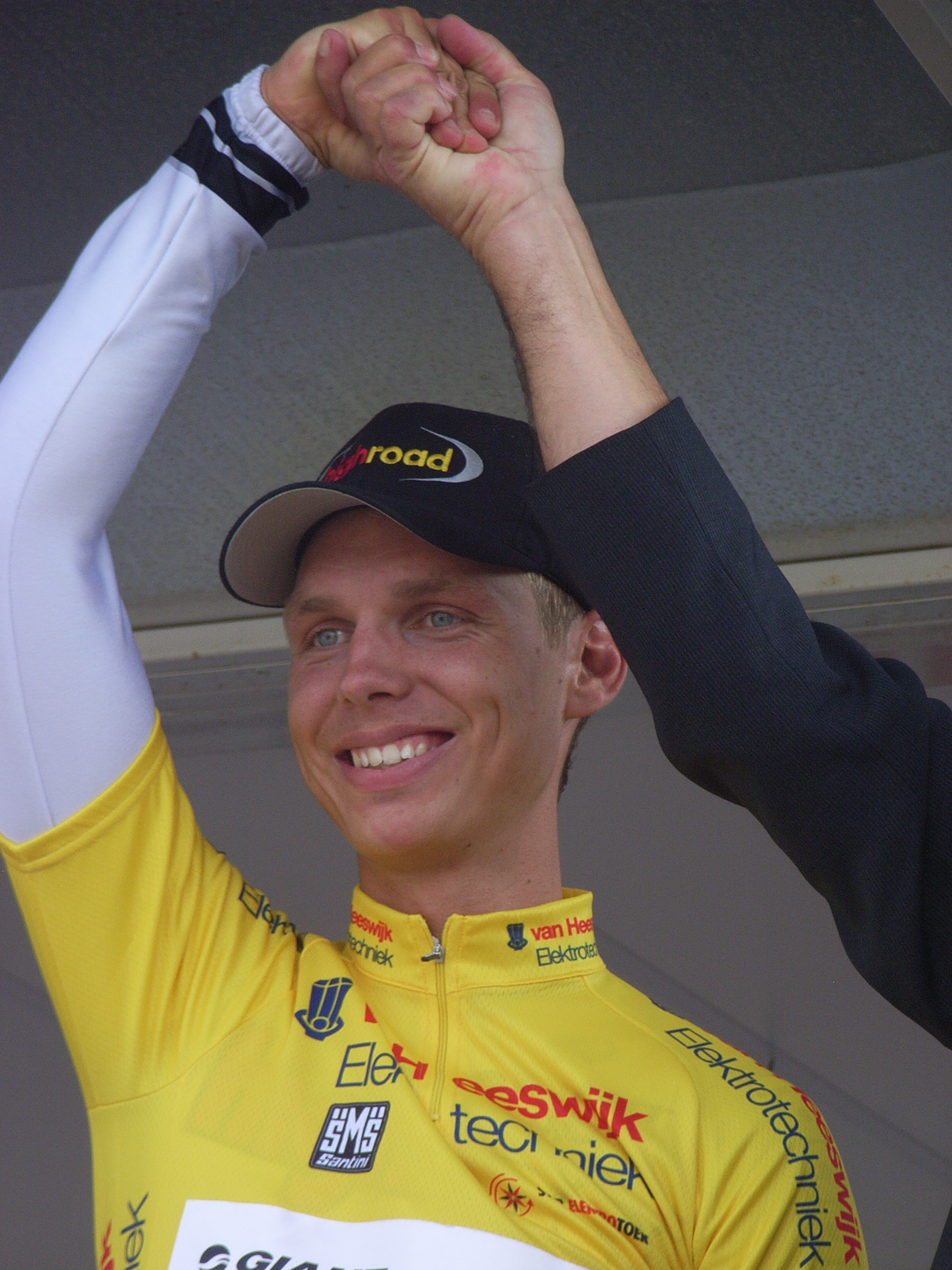 Cyclist Tony Martin in the Ster Electrotour 2008